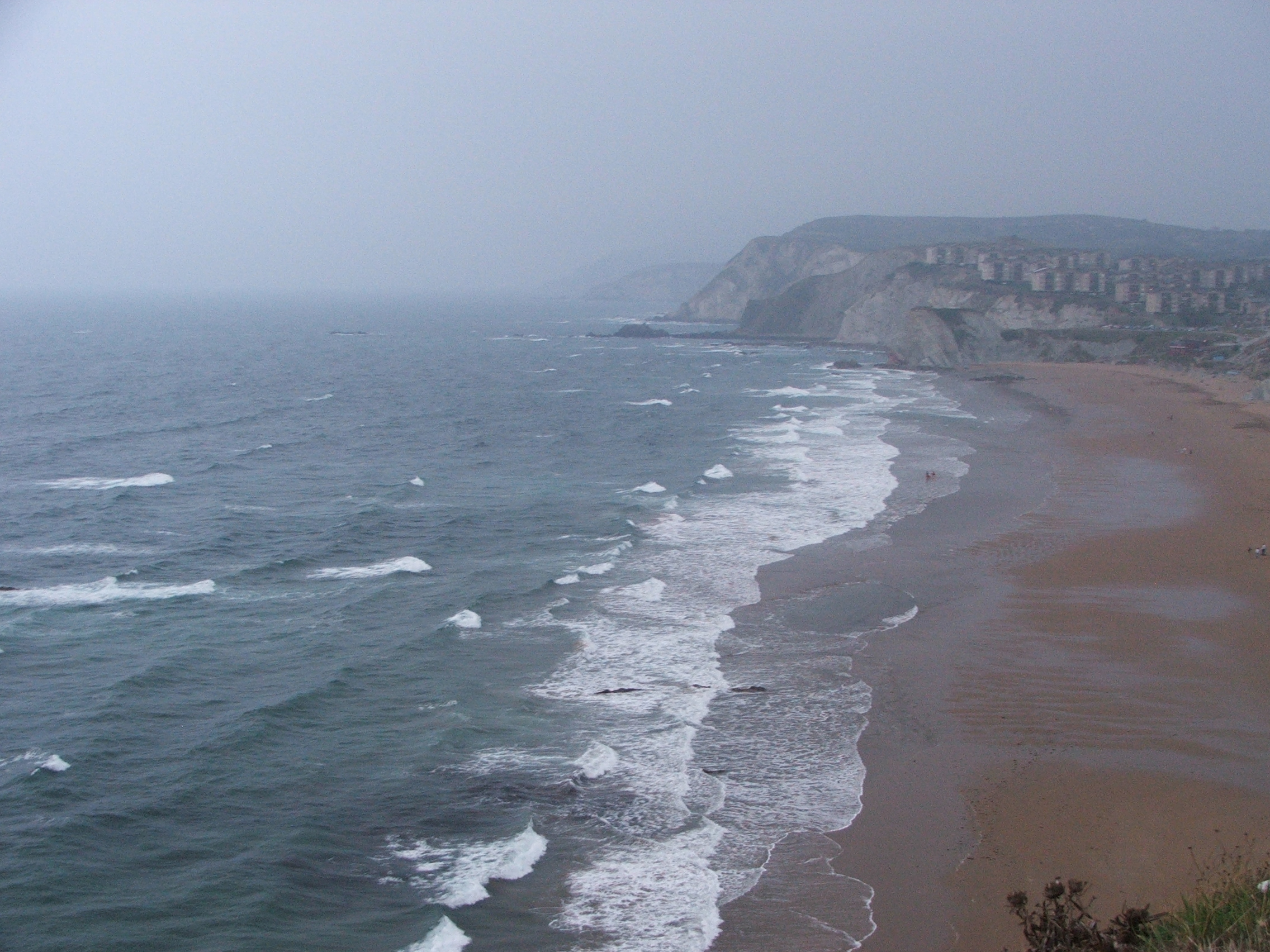 Arrietara beach in Sopela, Basque Country